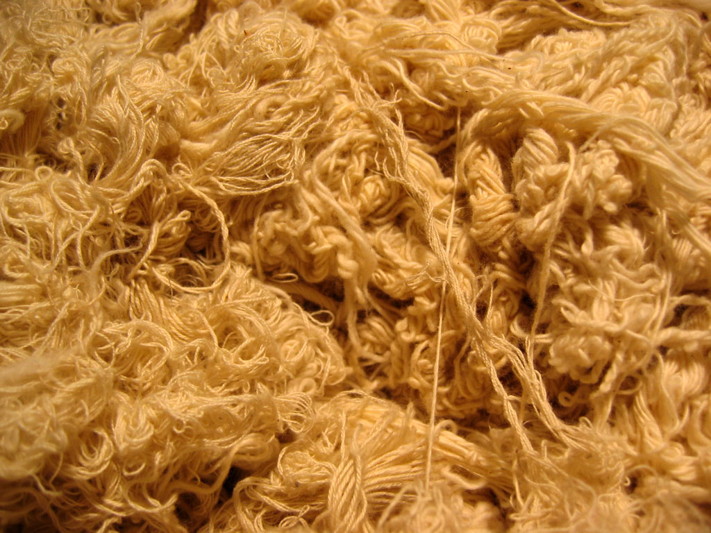 Bundle of cotton threads at Helmshore Mills Textile